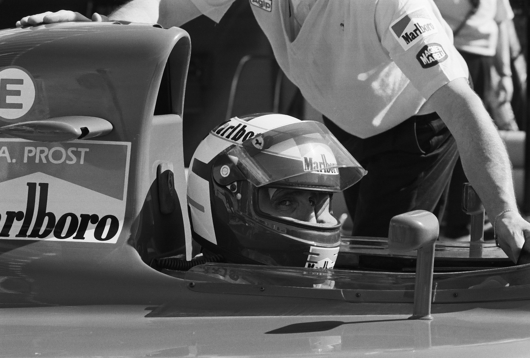 Alain Prost (Scuderia Ferrari) at the United States Grand Prix in 1991.